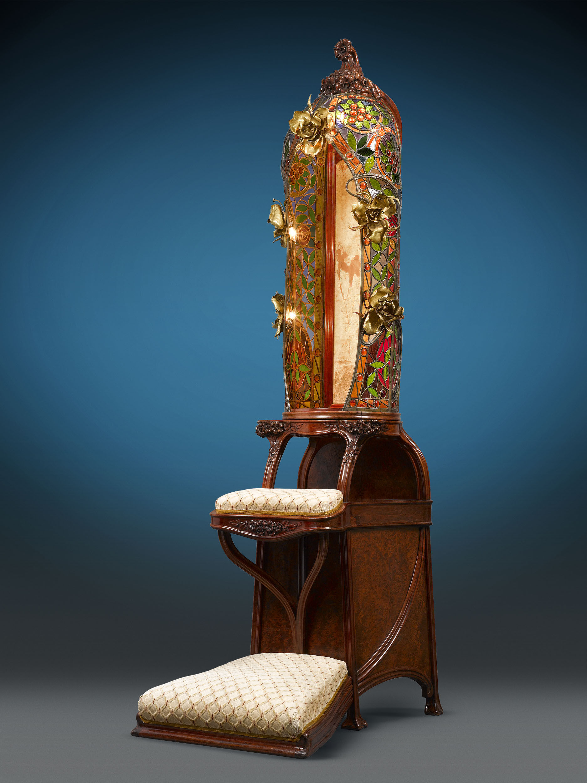 Prie dieu, or prayer desk, for Casa Batlló by Antoni Gaudi